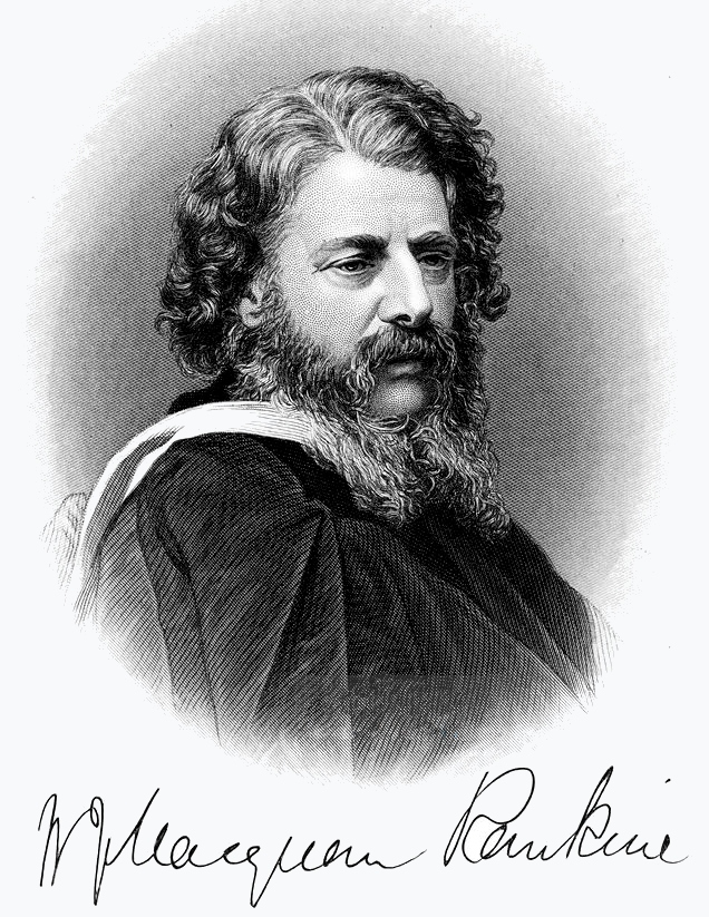 Photograph of the Scottish engineer and scientist William John MacQuorn Rankine, who gave his name to the Rankine temperature scale